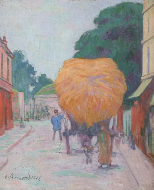 La porte d'Asnières – Le char de foin. Signed and dated E. Bernard 1886; signed and dated Emile Bernard Asnières 1886 (on the frame); oil on canvas, 53 x 45 cm